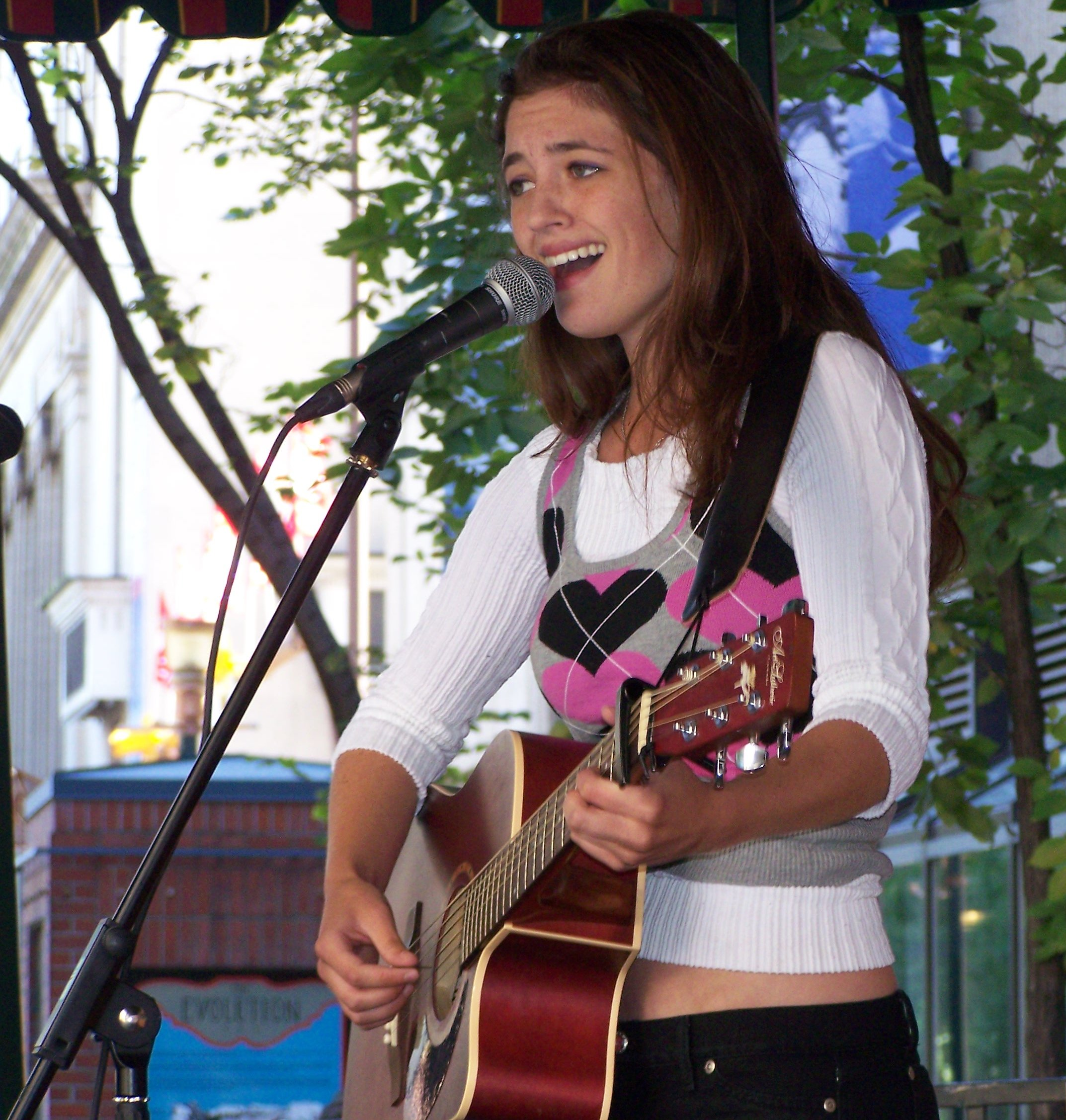 Alanna Clarke performing a free concert along Stephen Avenue Mall in downtown Calgary, Alberta, Canada